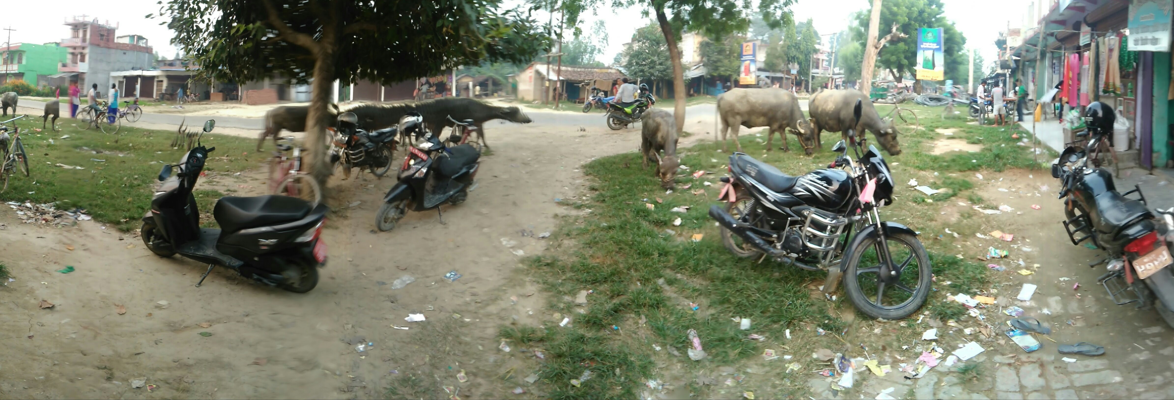 A panoramic view of Mainapokhar bazar